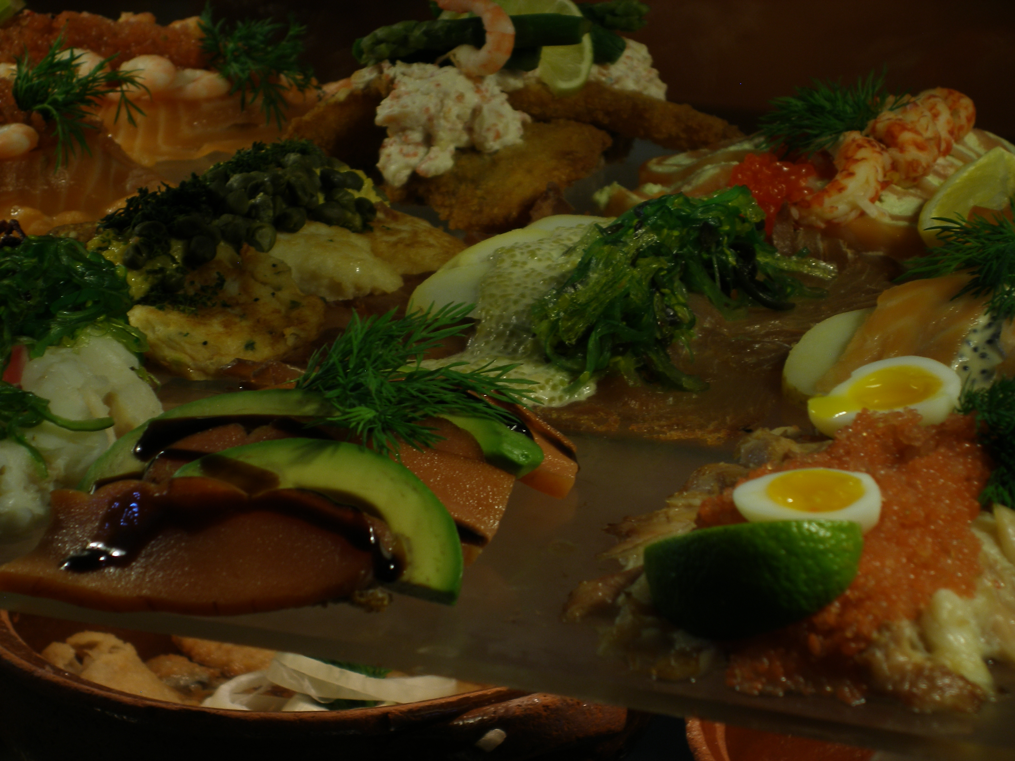 Decorated open-faced sandwiches (pyntet smørrebrød) in showcase of Restaurant Ida Davidsen, St. Kongensgade 70, Copenhagen, Denmark